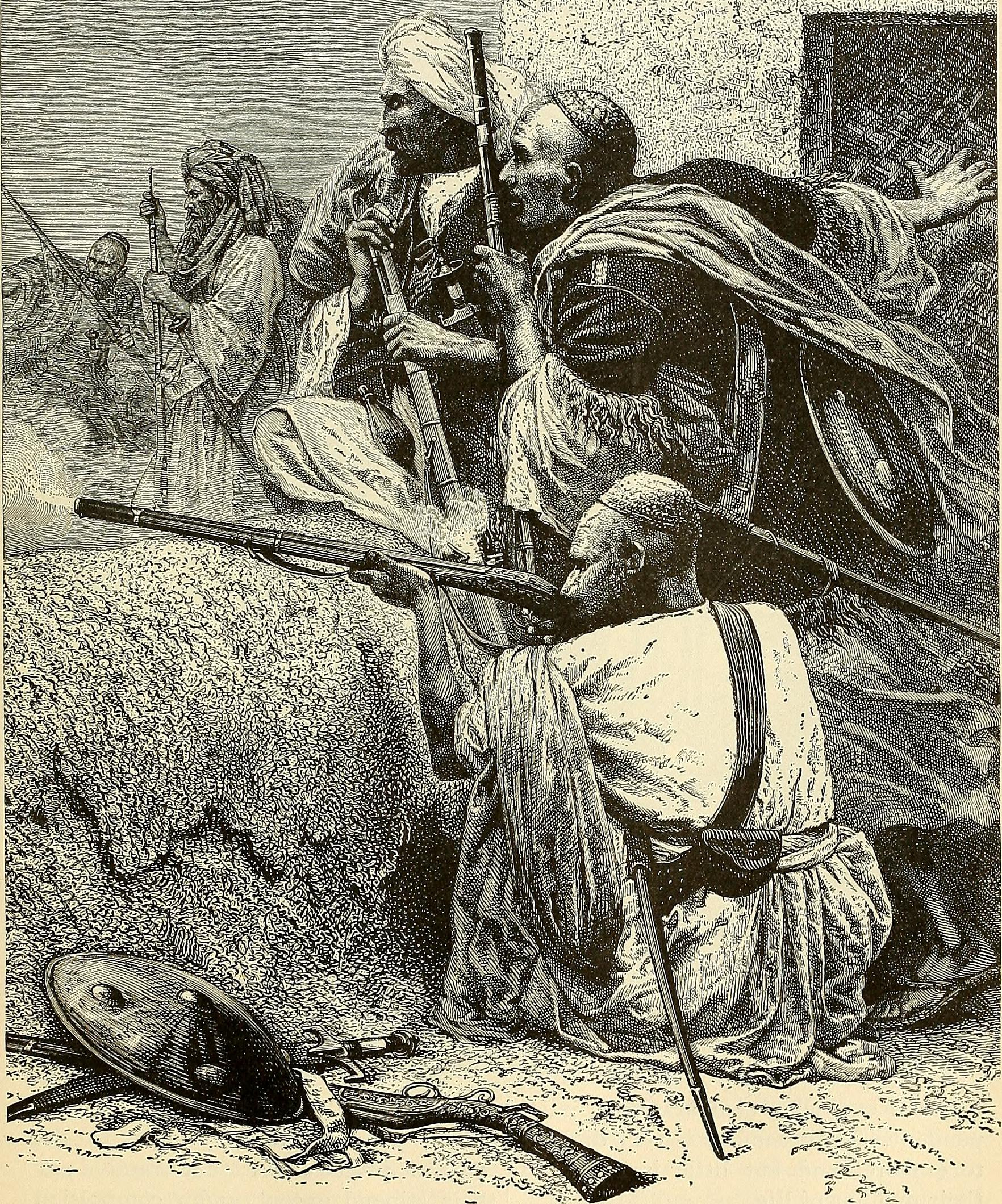 Title: Cyclopedia universal history : embracing the most complete and recent presentation of the subject in two principal parts or divisions of more than six thousand pages Year: 1895 (1890s) Authors: Ridpath, John Clark, 1840-1900 Subjects: World history Ethnology World history Publisher: Boston : Balch Bros. Text Appearing Before Image: ' Text Appearing After Image: 41 HUZAREH TYPES—Afridis Attacking English 1 hoops.—Drawn by Emile Bayard. 634 GREAT RACES OF MANKIND. The Yusufzais live in a hill tract northof Peshawer, where they maintain asemi-independence. They are regardedby the Afghan chiefs as among the mostturbulent race with whom they have todeal The Kakars, also in Southeastern In several parts of Afghanistan wan-dering colonies of Persians known asKizilbashis have settled. Distribution and They bear the character character of theof Persianized Turks, and the Persian language. They arefound chiefly inthe towns, wherethey maintainthemselves asmerchants, phy-sicians, andscribes. Manyof them are en-rolled in the Af-ghan cavalry andin the Indianregiments of theEnglish army.The Huzar ehdwell in themountain coun-try, in the north-west of Afghan-istan, among thespurs of Hindu-Kush. Theirdwellings arefrequently foundas much as tenthousand feetabove the levelof the sea. _ It isevident that thetribe has beeninfected with^Mongolian influ-e n c e